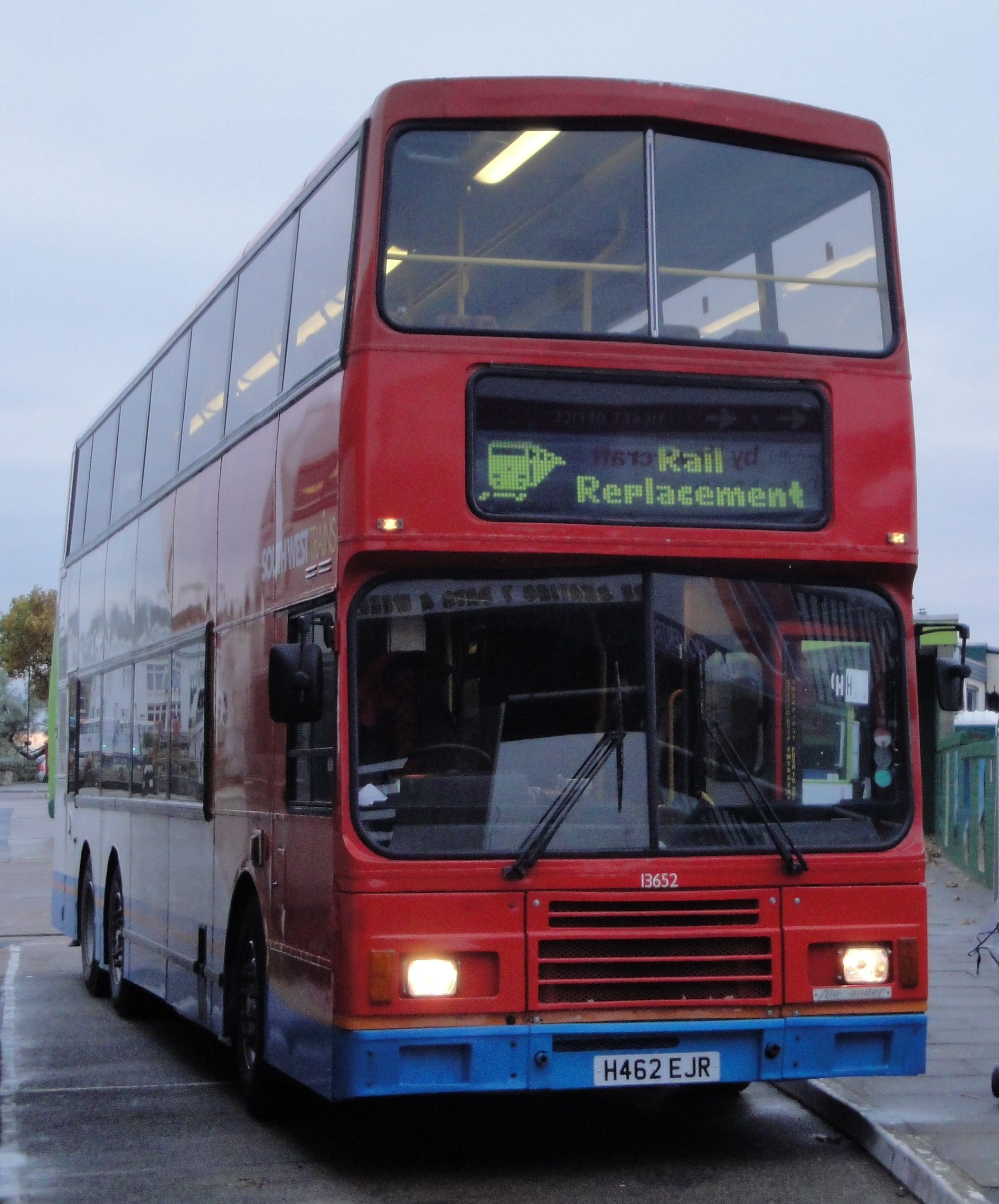 Stagecoach in Hampshire bus 13652 (reg. H462 EJR), a 1991 Leyland Olympian double-decker with Alexander RH bodywork, pictured in Ryde bus station operating a rail replacement service for Island Line Trains on the Isle of Wight. Replacement buses were being run between the stations in Ryde at St John's Road and Esplanade over the weekend of 30/31 October 2010, to cover track renewal works at Esplanade (no services were run along Ryde Pier due to vehicle restrictions in place at the time). The bus is wearing the fleetnames and livery of Stagecoach sister company South West Trains, who operate the Island Line as a sub-brand. It's a high capacity tri-axle 11m long air-conditioned coach, delivered new to Hong Kong operator Citybus as their fleet no. 162 (reg. ET 1746). See Second-hand Hong Kong tri-axle buses imported to the United Kingdom for a full vehicle history.